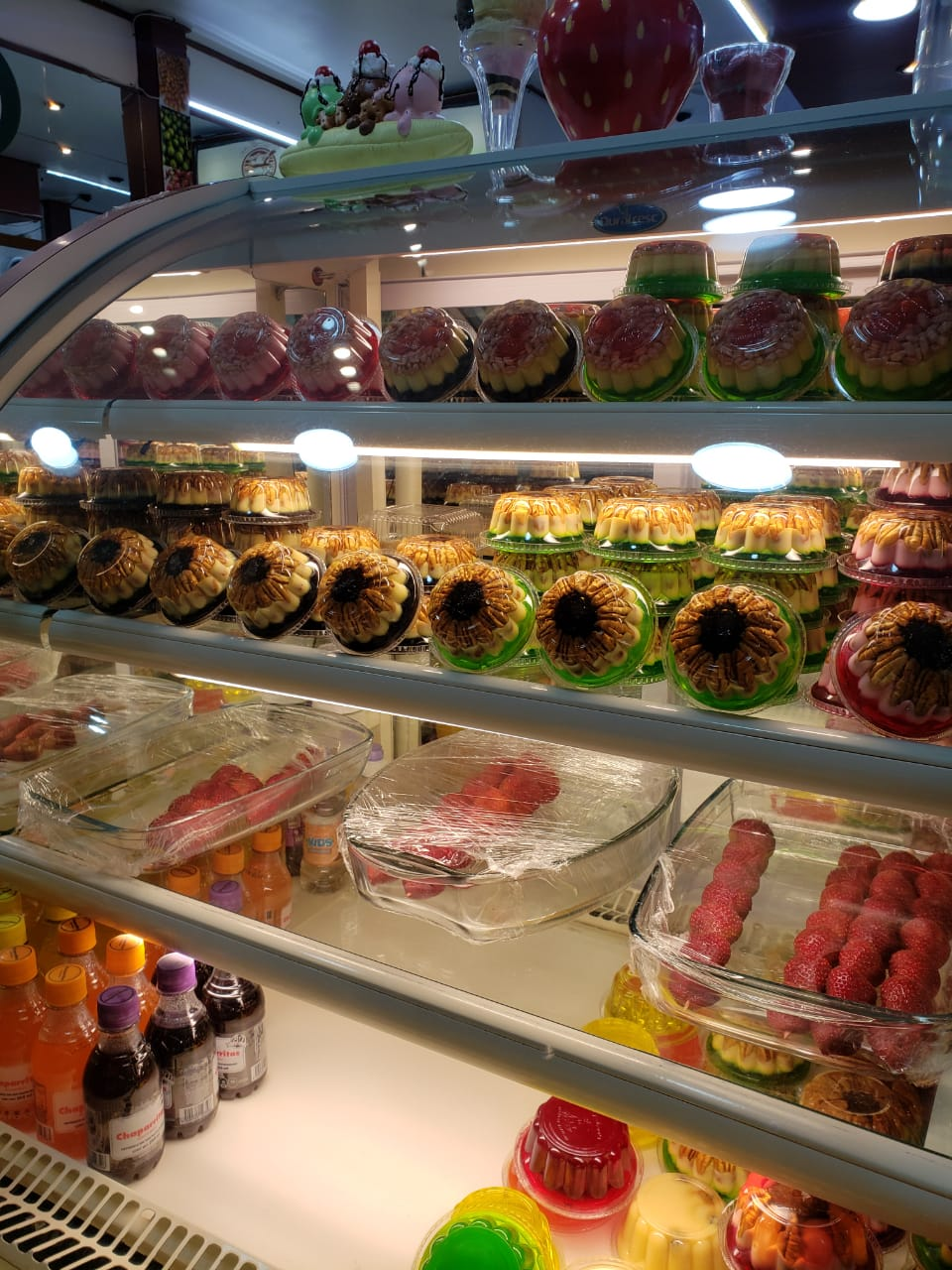 Mexican jellies are one of the most representative desserts in the center of Coyoacan for its variety of colors and its mixture of nuts and blueberries. This jellies are made of different flavours and they can be made of water or milk.